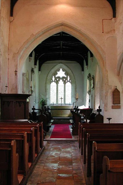 St Vincent, Newnham, Herts - East end